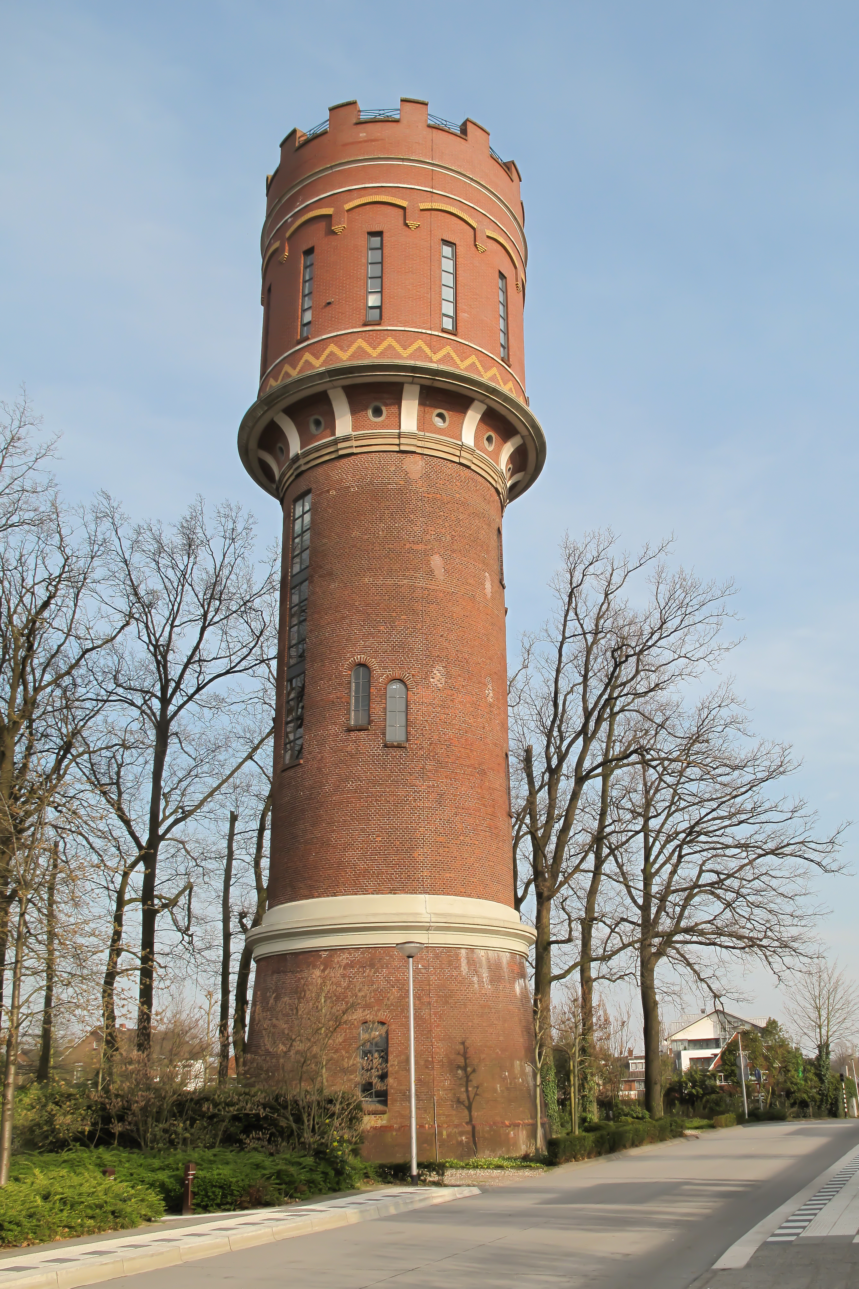 Oldenzaal, watertower